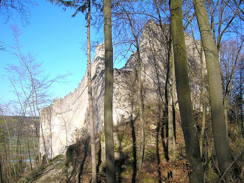 Rumburg Castle near Enkering, Upper Bavaria, Germany. Total view over the moat. Own photo, April 2007